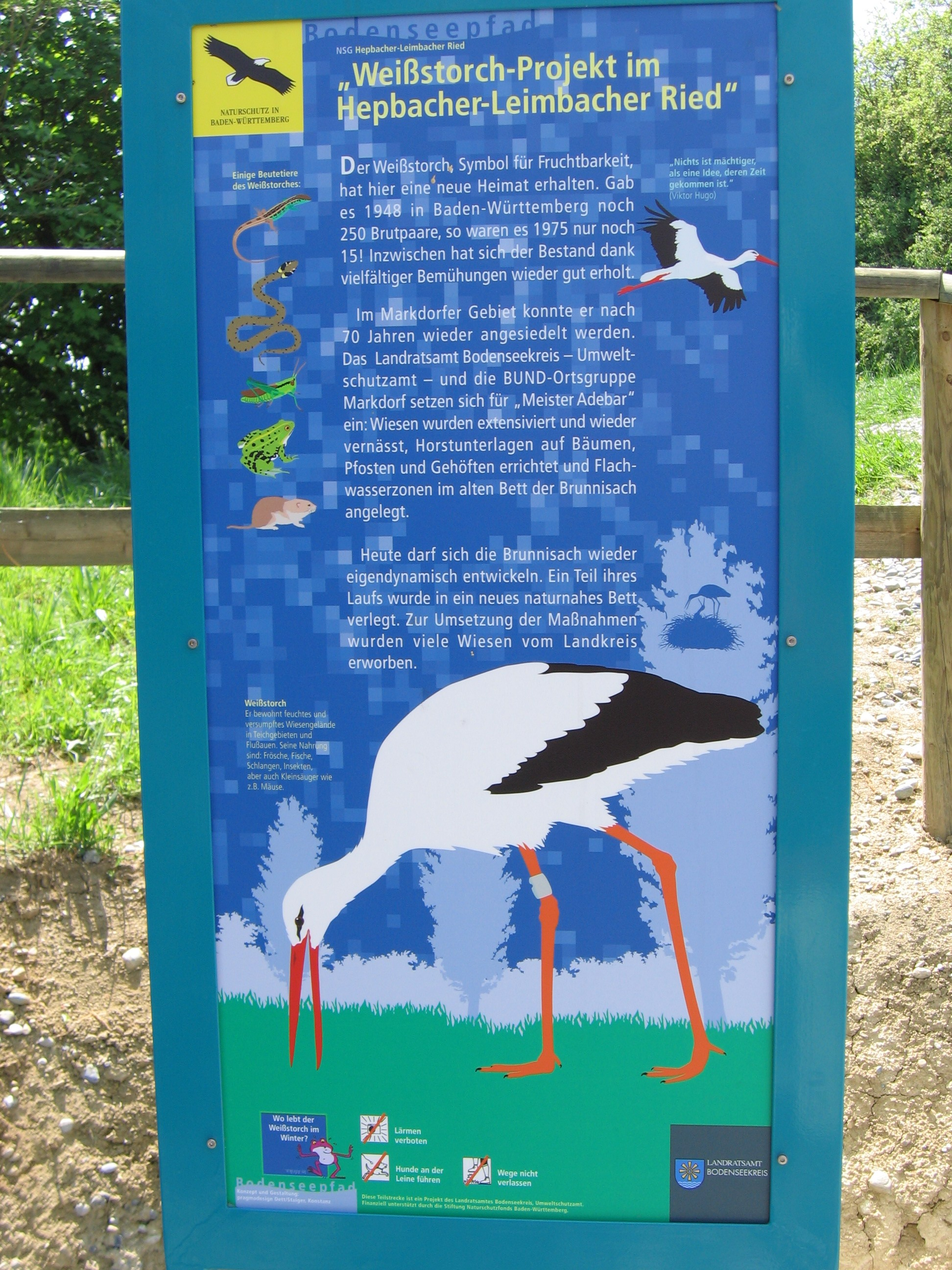 Germany - Baden-Württemberg - Bodenseekreis - Friedrichshafen/Markdorf/Oberteuringen: nature reserve "Hepbacher-Leimbacher-Ried", information about Ciconia ciconia